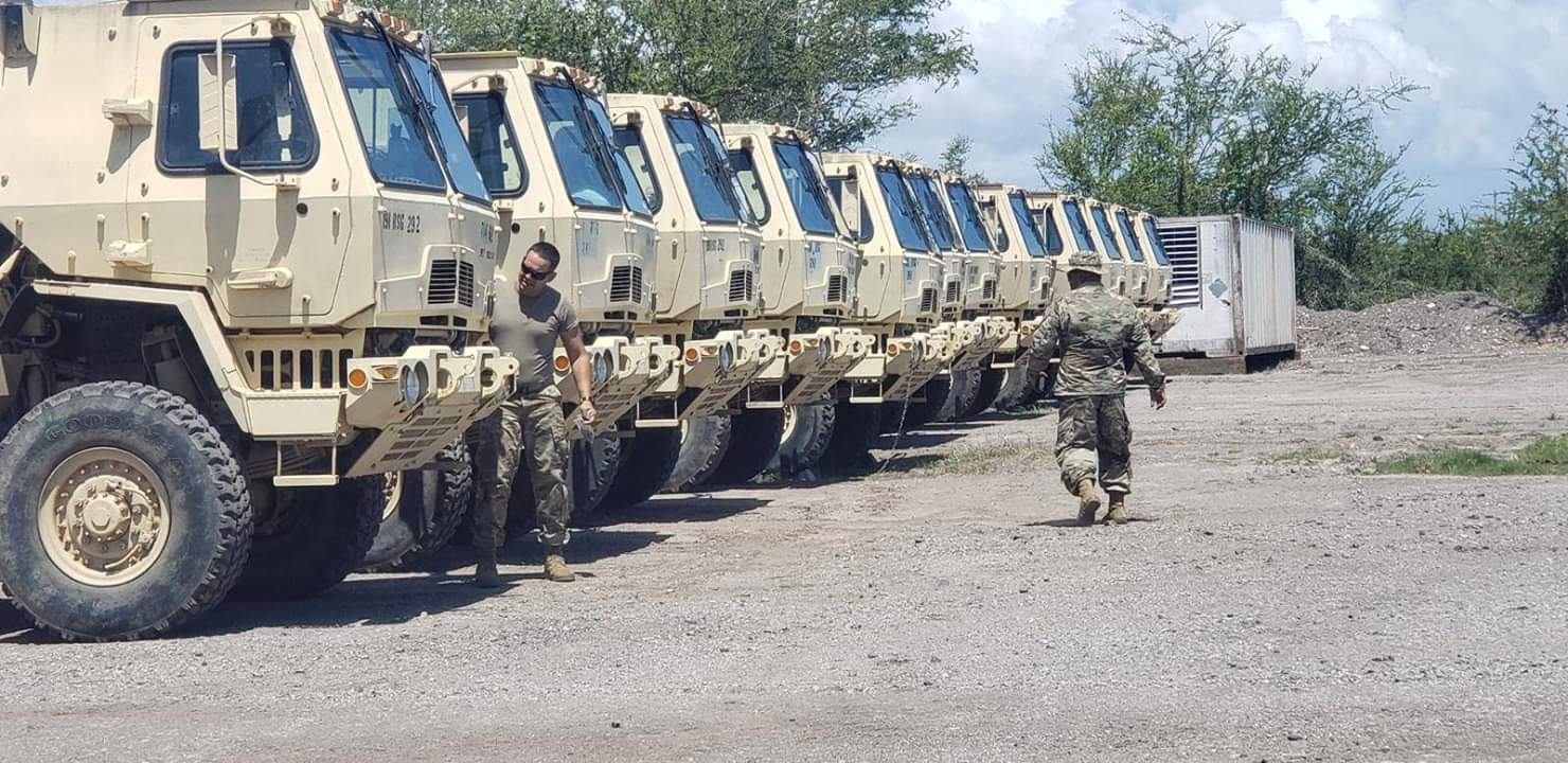 Puerto Rico National Guard members check and fuel military vehicles and electrical generators and replenish water distribution trucks on Aug. 27, 2019, in preparation to respond to Hurricane Dorian. (Courtesy of the Puerto Rico National Guard)